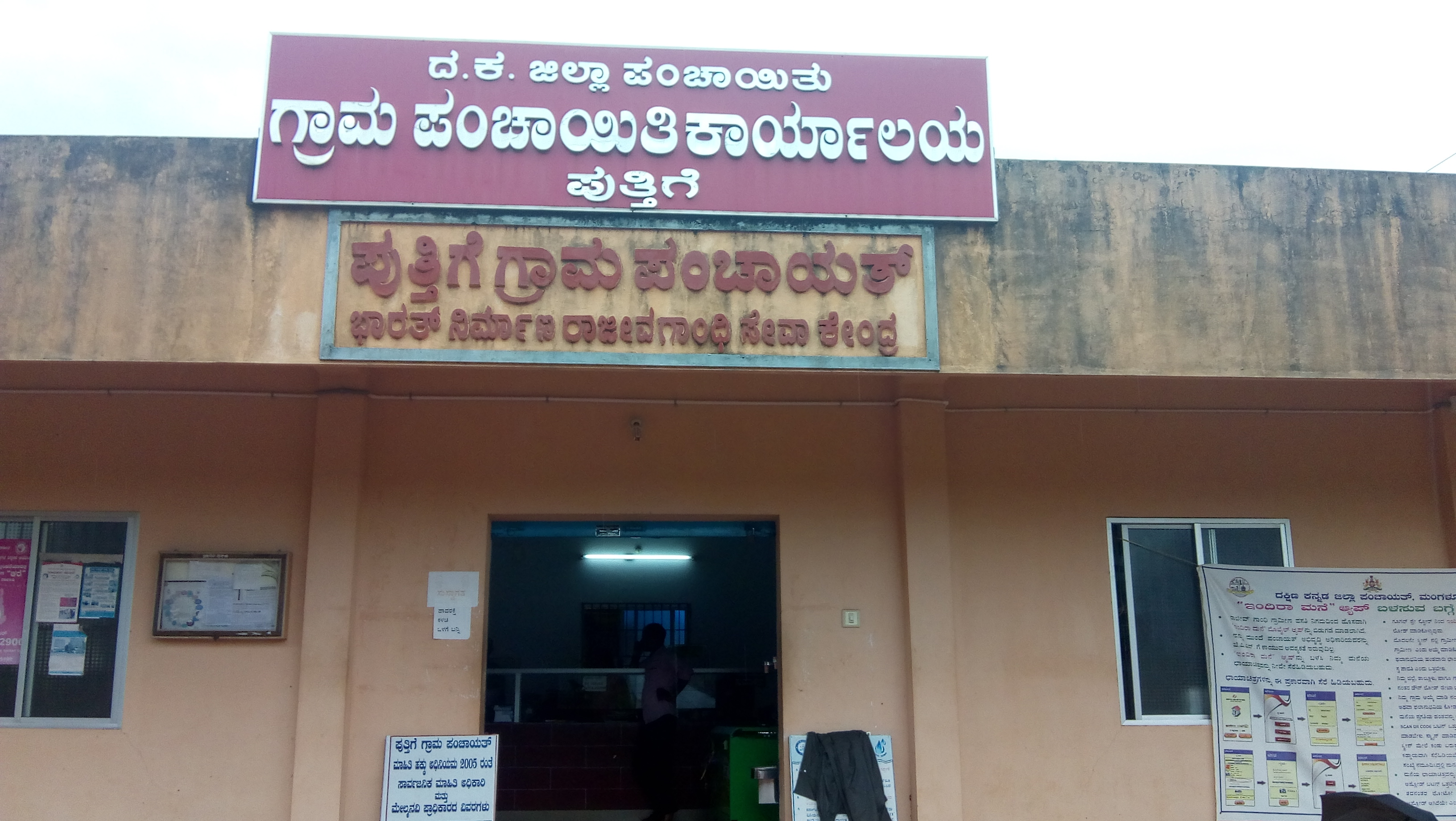 puthige punchayat